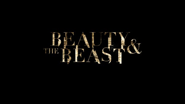 Logo for the US television show Beauty and the Beast